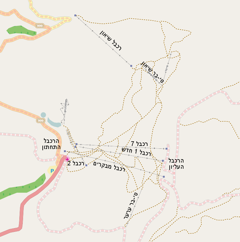 Map of Hermon Ski Site